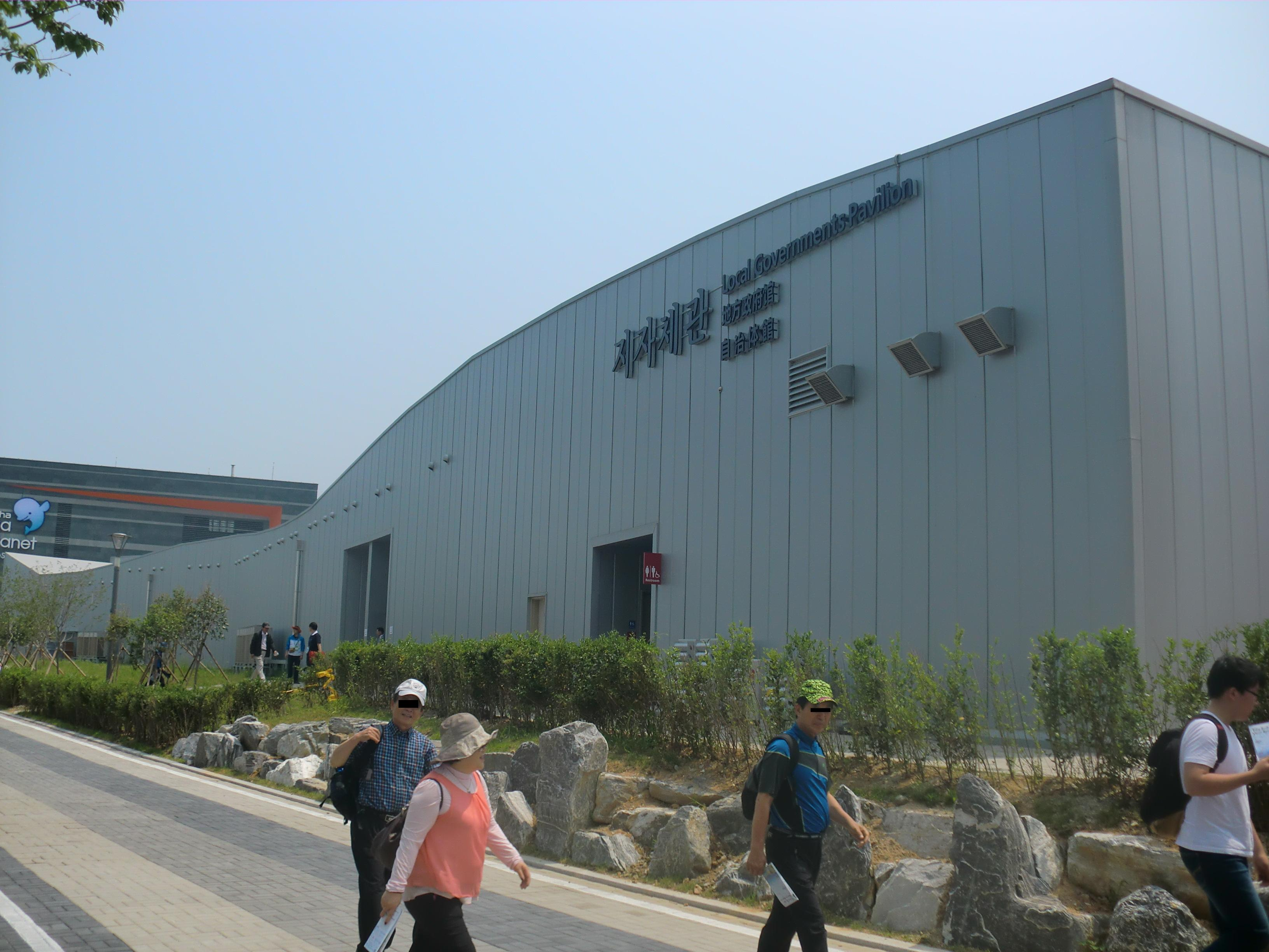 Expo 2012 Local_Governments_pavilion